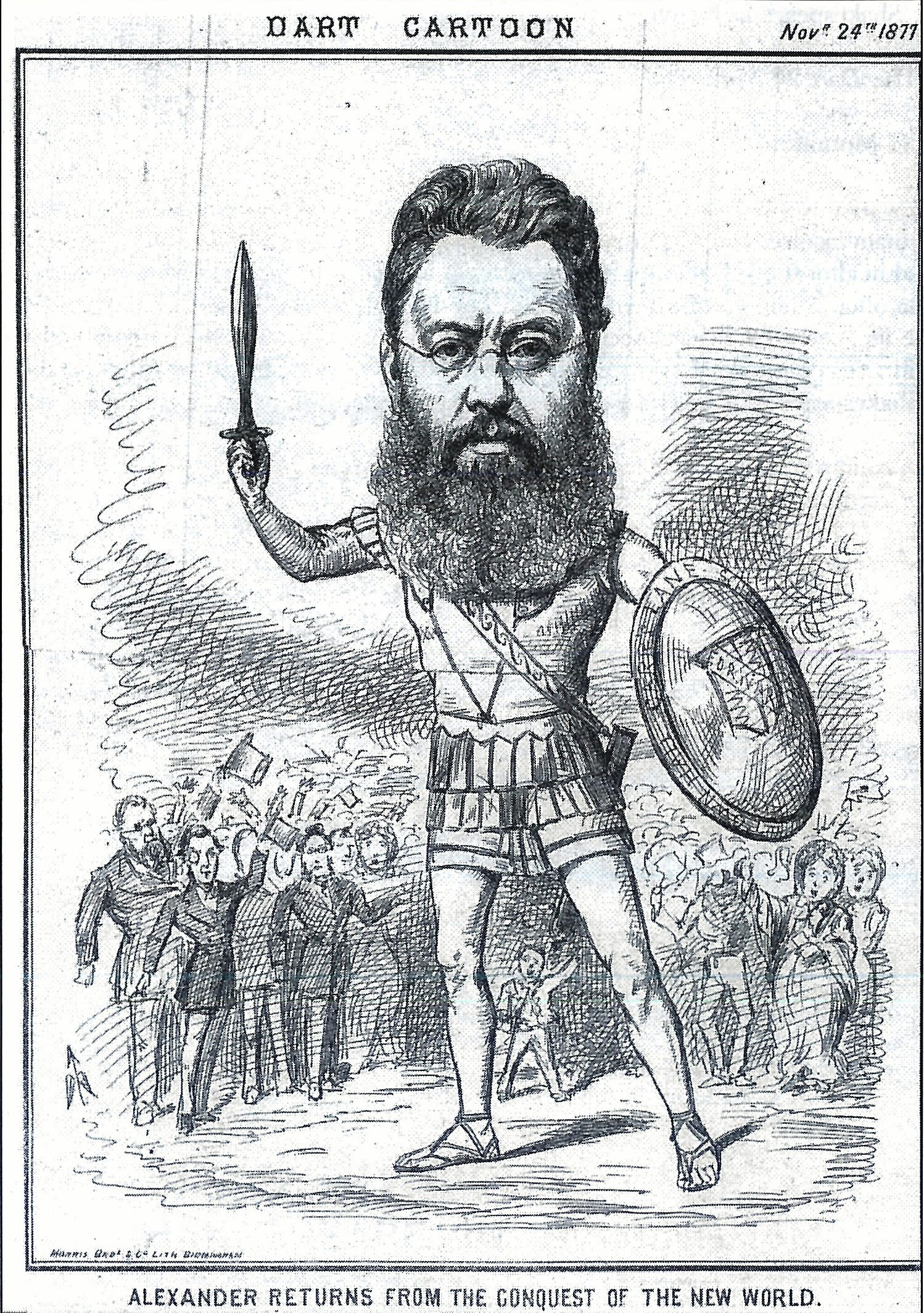 'Alexander Returns from the Conquest of the New World': cartoon of Robert William Dale (1829-1895), on his return to Birmingham following a lecture tour to the United States; originally published in 'The Dart' (24 November 1877)